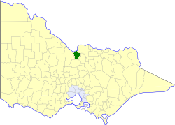 Location of the Shire of Deakin within Victoria.